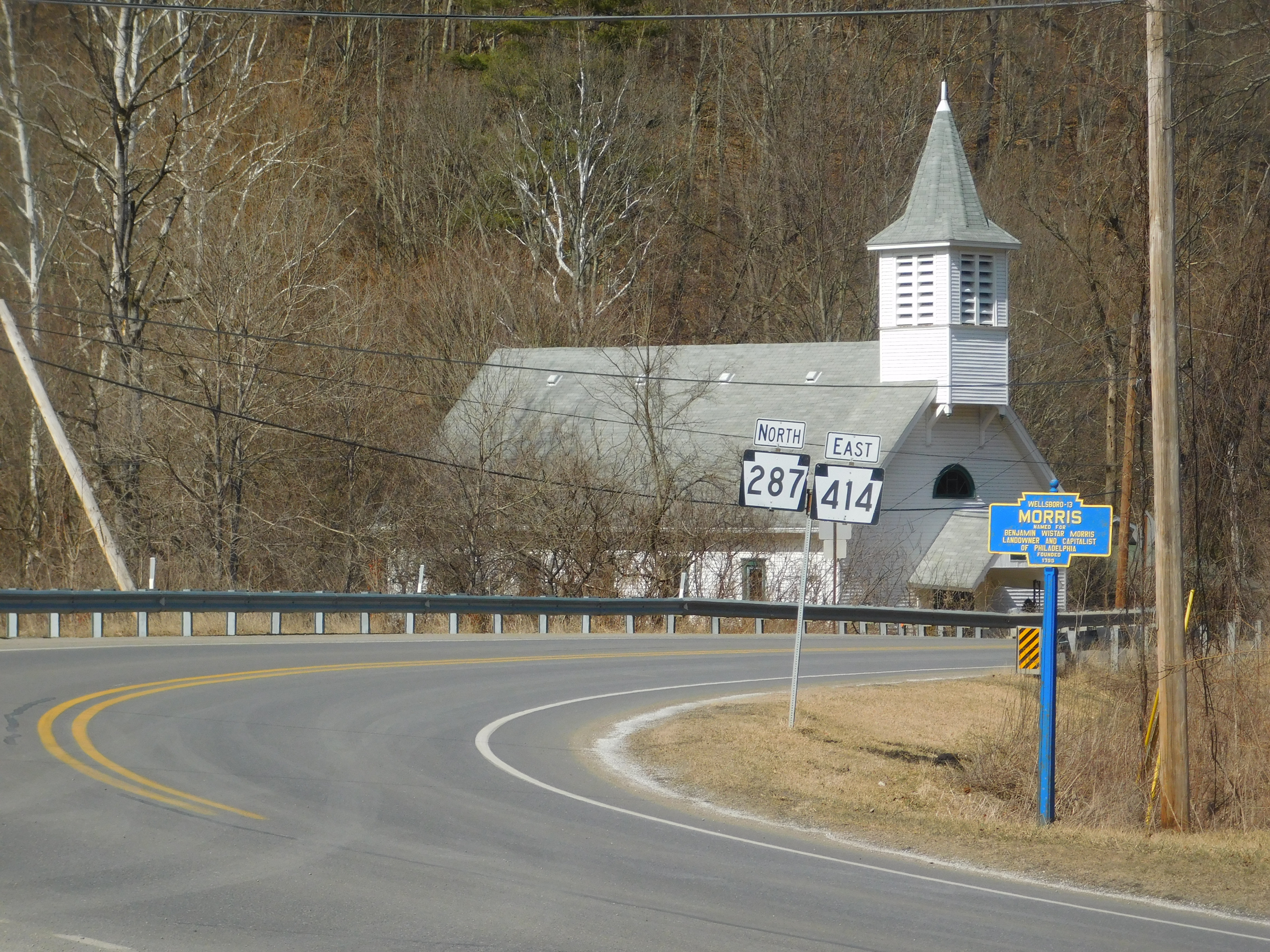 PA 287 and PA 414 in Hoytville, Pennsylvania.